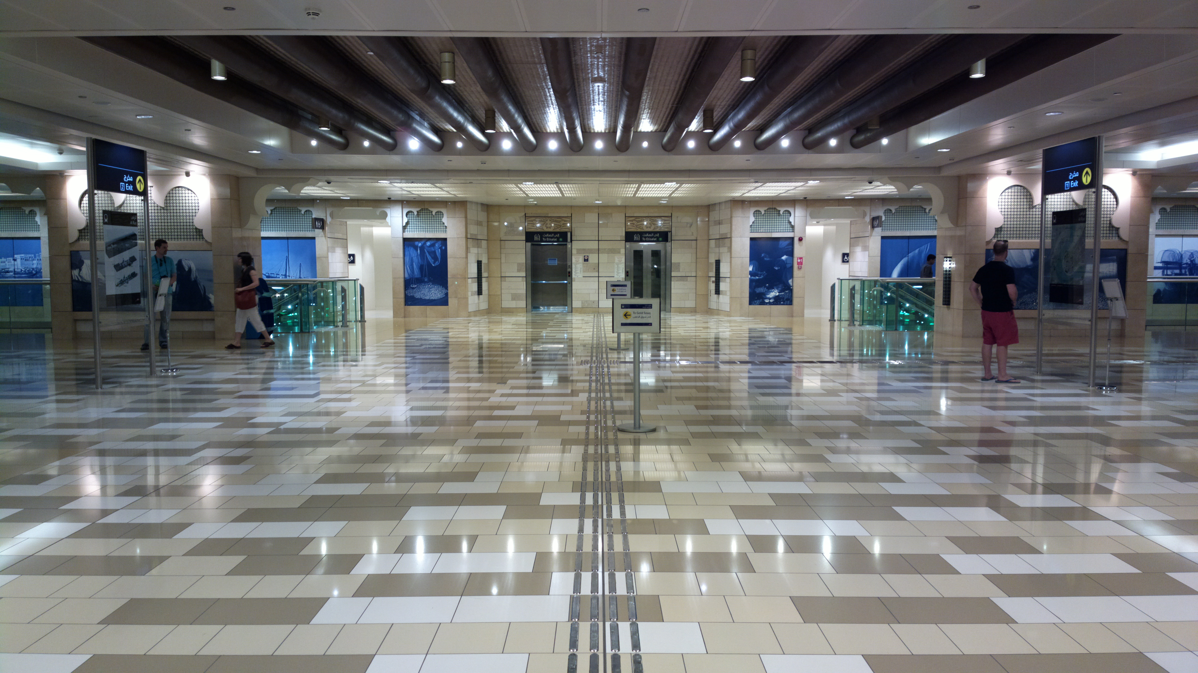 Ticket hall of Al Ras metro station